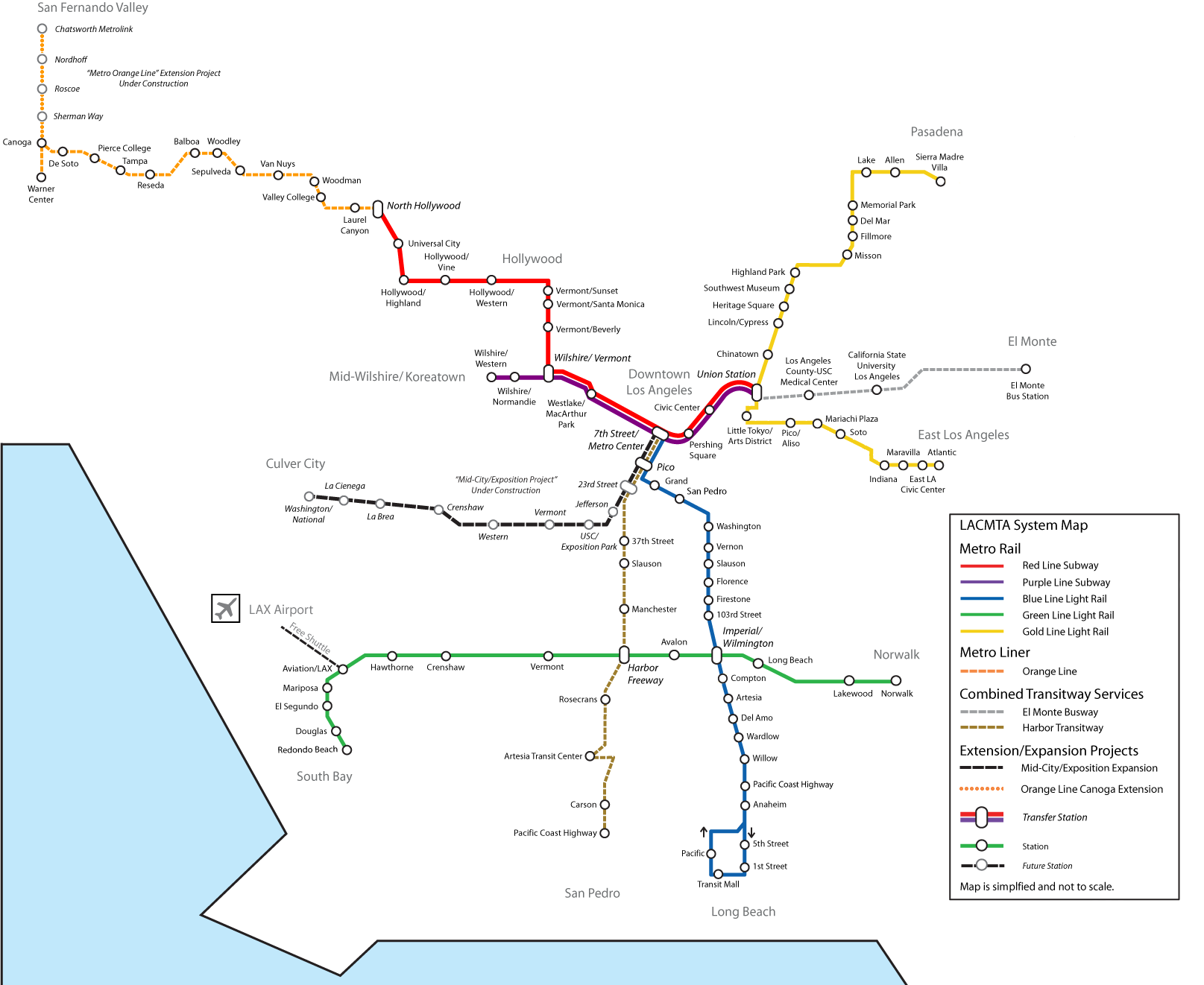 Los Angeles Metro map showing existing and under-construction transit lines, updated for 2009